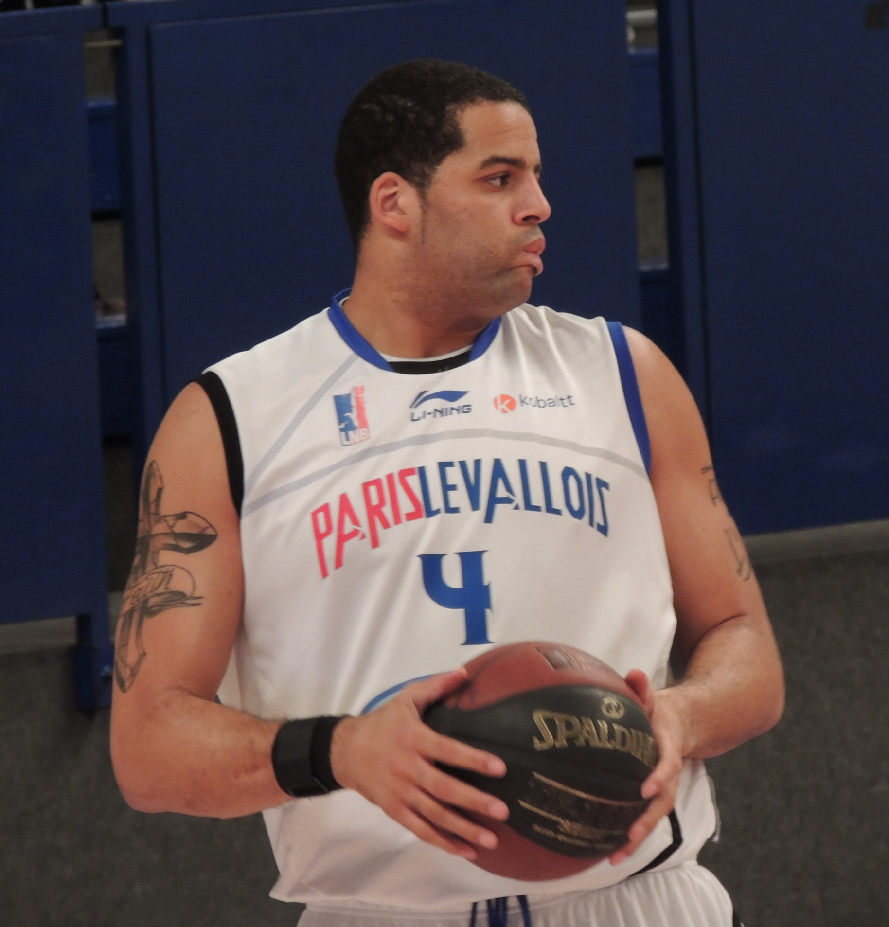 Sean May warming up for Paris-Levallois